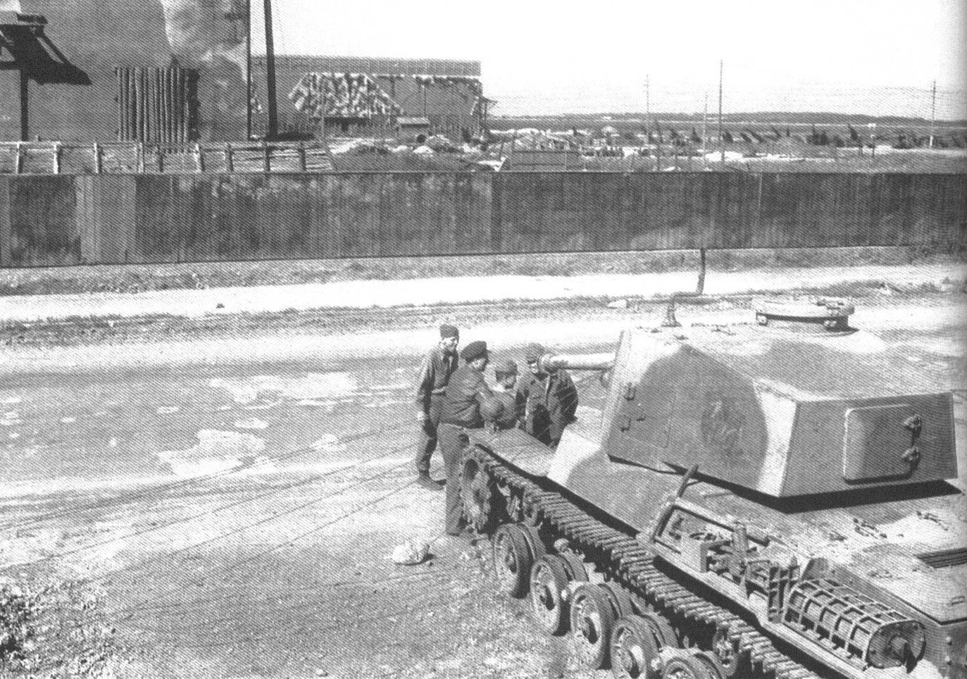 Japanese Type 3 Chi-Nu tank being prepared for shipping to US after the war